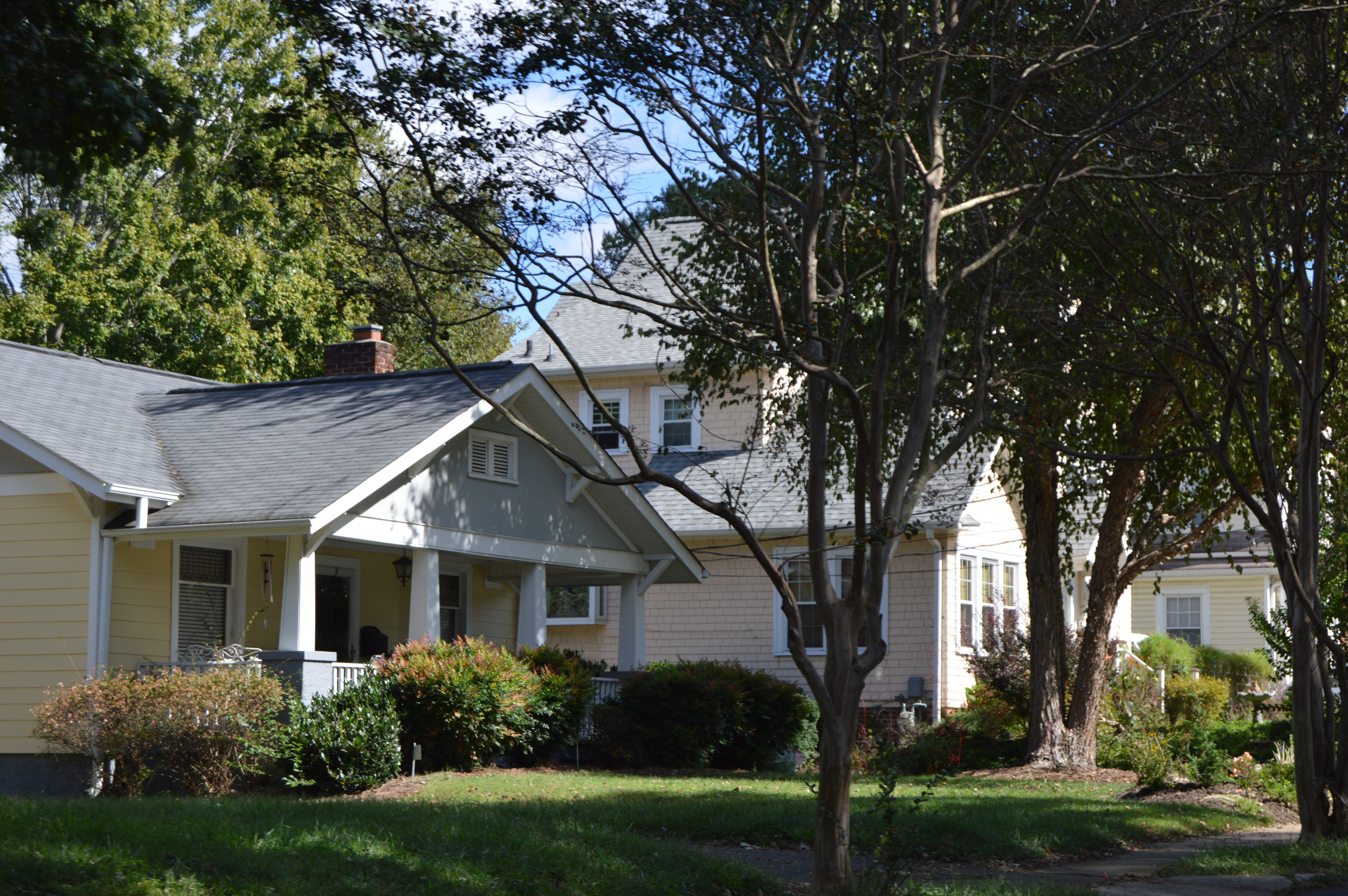 Houses on the northern side of the 2200 block of Westover Boulevard in Winston-Salem, North Carolina, United States. This block is part of the Ardmore Historic District, a historic district that is listed on the National Register of Historic Places.